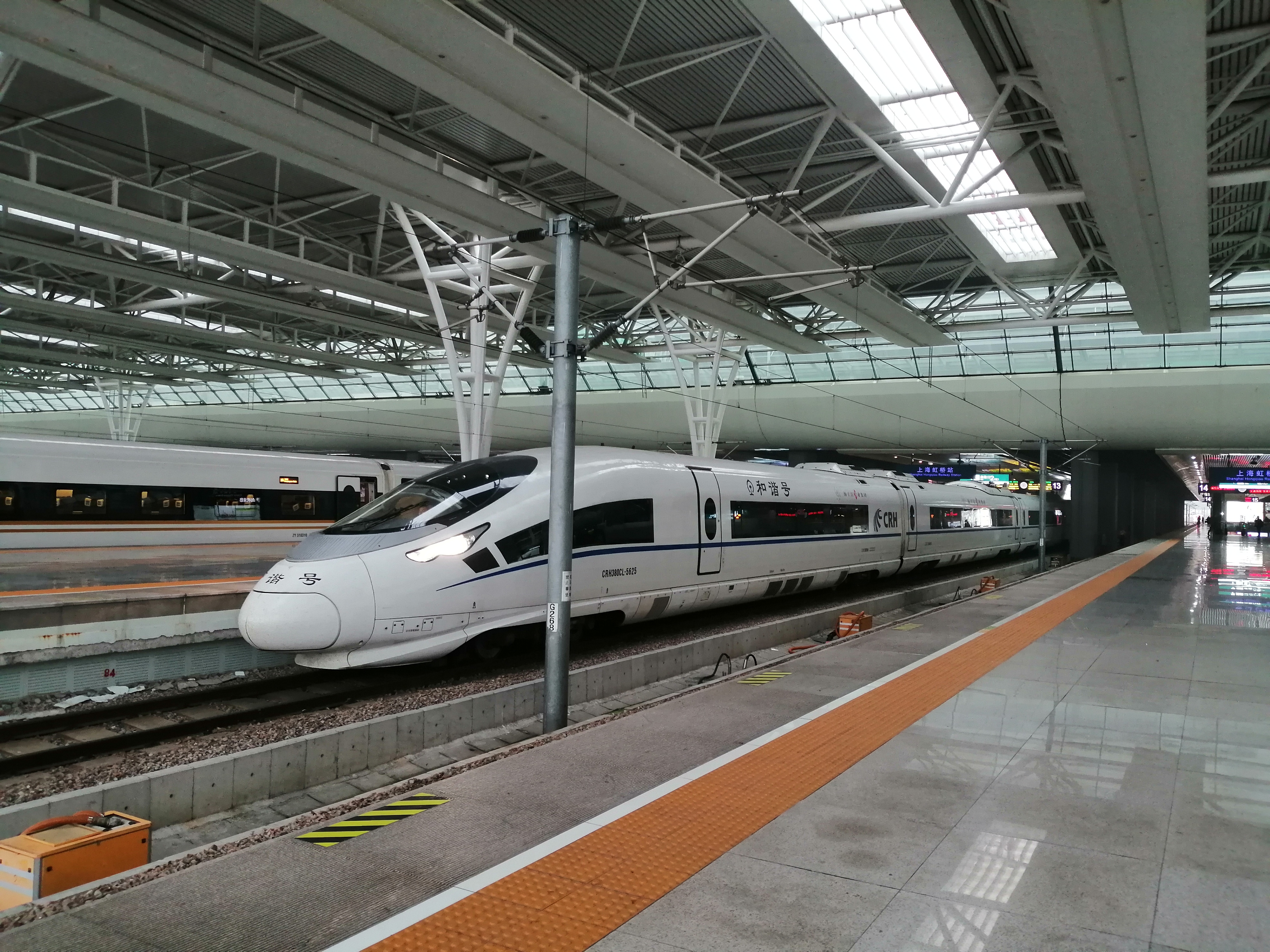 CRH380CL-5625, which served as G106 to Beijing South, is ready to depart at Shanghai Hongqiao Railway Station. It is sponsored by Yangtse River Pharma Group. 中文（中国大陆）: CRH380CL-5625担当的G106次列车在上海虹桥站准备发车，列车由扬子江药业集团冠名。